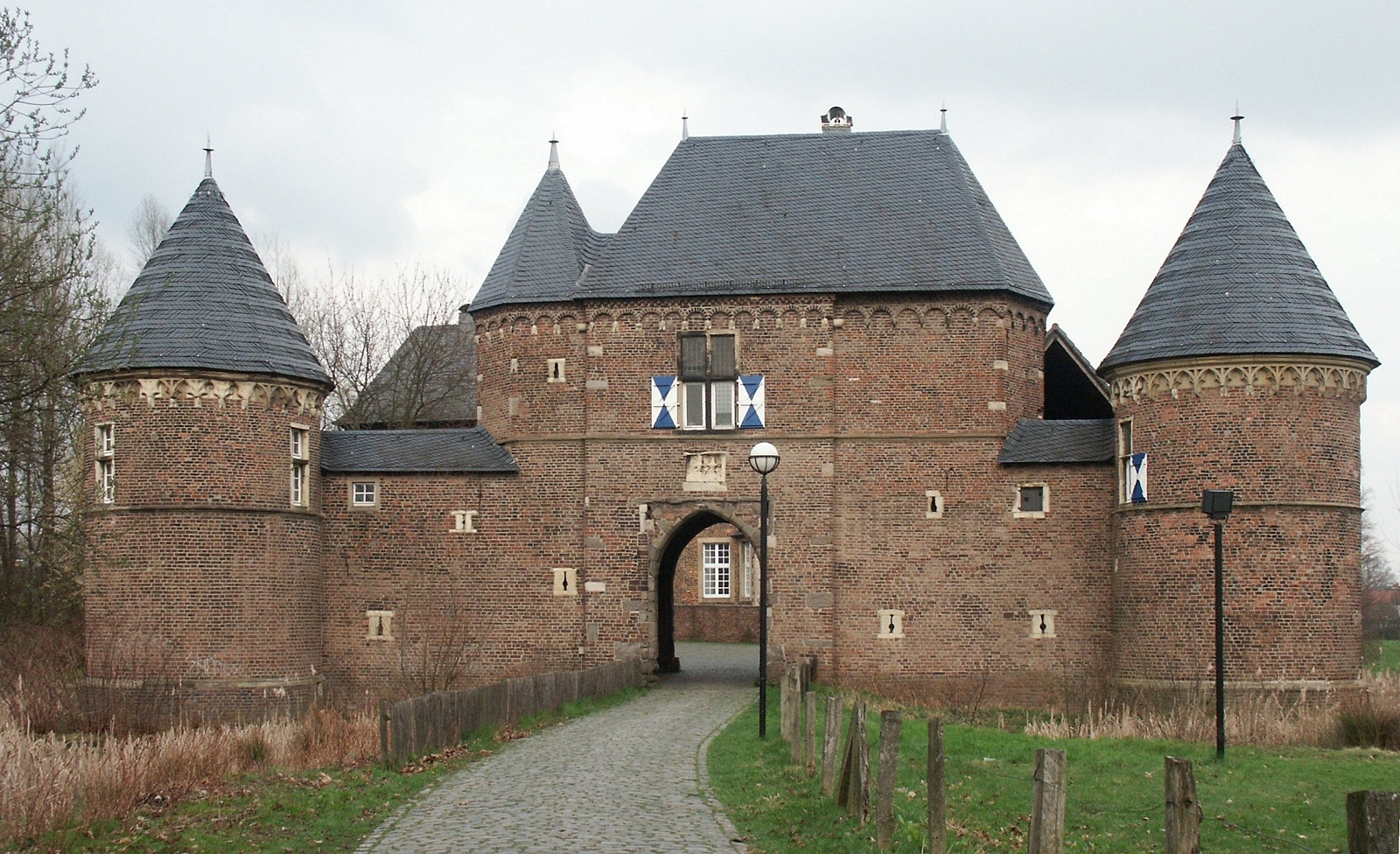 Description: Castle Vondern in Oberhausen-Osterfeld, view from south-west Capture date: 26. Mar. 2005 Photographer: Sir Gawain